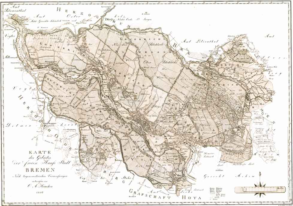 Translation of the title: "Map of the territory of the Free Hanseatic city of Bremen", designed by C. A. Heineken according to a trigonometric survey" – scale about 1:42,000 – This map is basically a revised edition of the map published by Keineken in 1798, which had become outdated due to the enlargement of the territory of Bremen following the German mediatization in 1803.